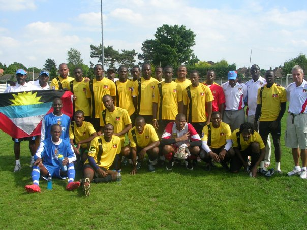 The Antigua and Barbuda national football team training in England in 2008.